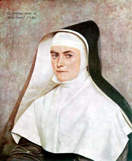 Jeanne-Antide Thouret (1765-1728), foundress of the Sisters of Divine Charity